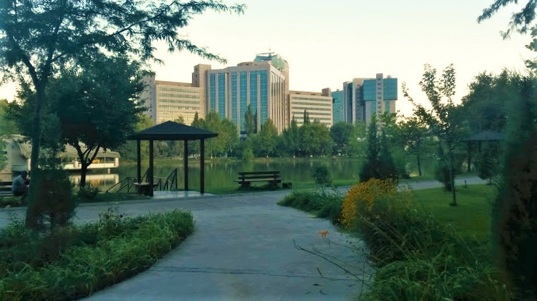 Picture taken 22-07-15 by myself in Tashkent, Uzbekistan